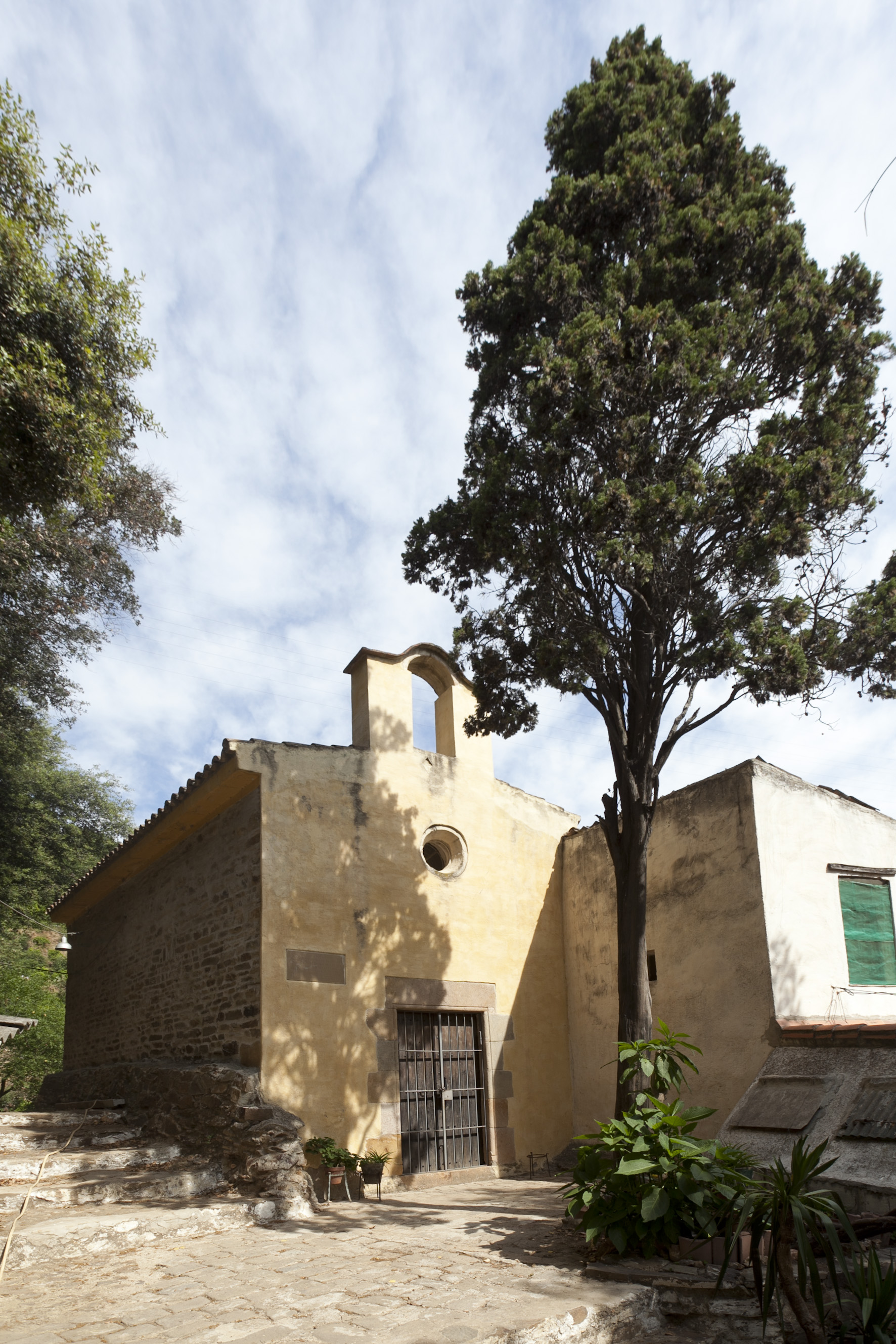 Historical Routes at the Horta-Guinardó District Administration in Barcelona This image was provided to Wikimedia Commons by the Horta-Guinardó District Administration in Barcelona as part of an ongoing cooperative project with Amical Viquipèdia. English | +/−